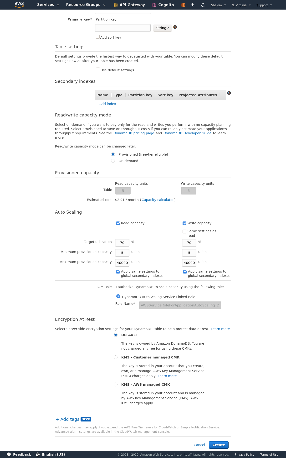 With checkbox "Use default settings" this screen is much simpler, with only this text below: No secondary indexes. Auto Scaling capacity set to 70% target utilization, at minimum capacity of 5 reads and 5 writes. Encryption at Rest with DEFAULT encryption type.